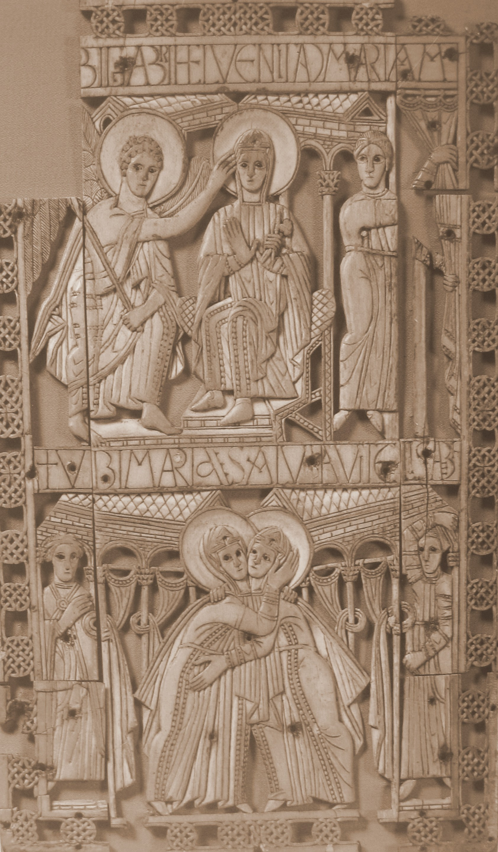 Ninth century ivory plaque from Genoels-Elderen (present-day Belgium)